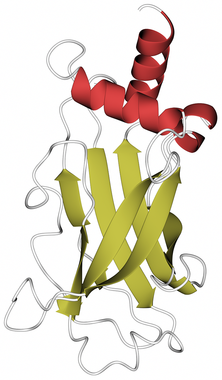 C2 domain of human RPGRIP1